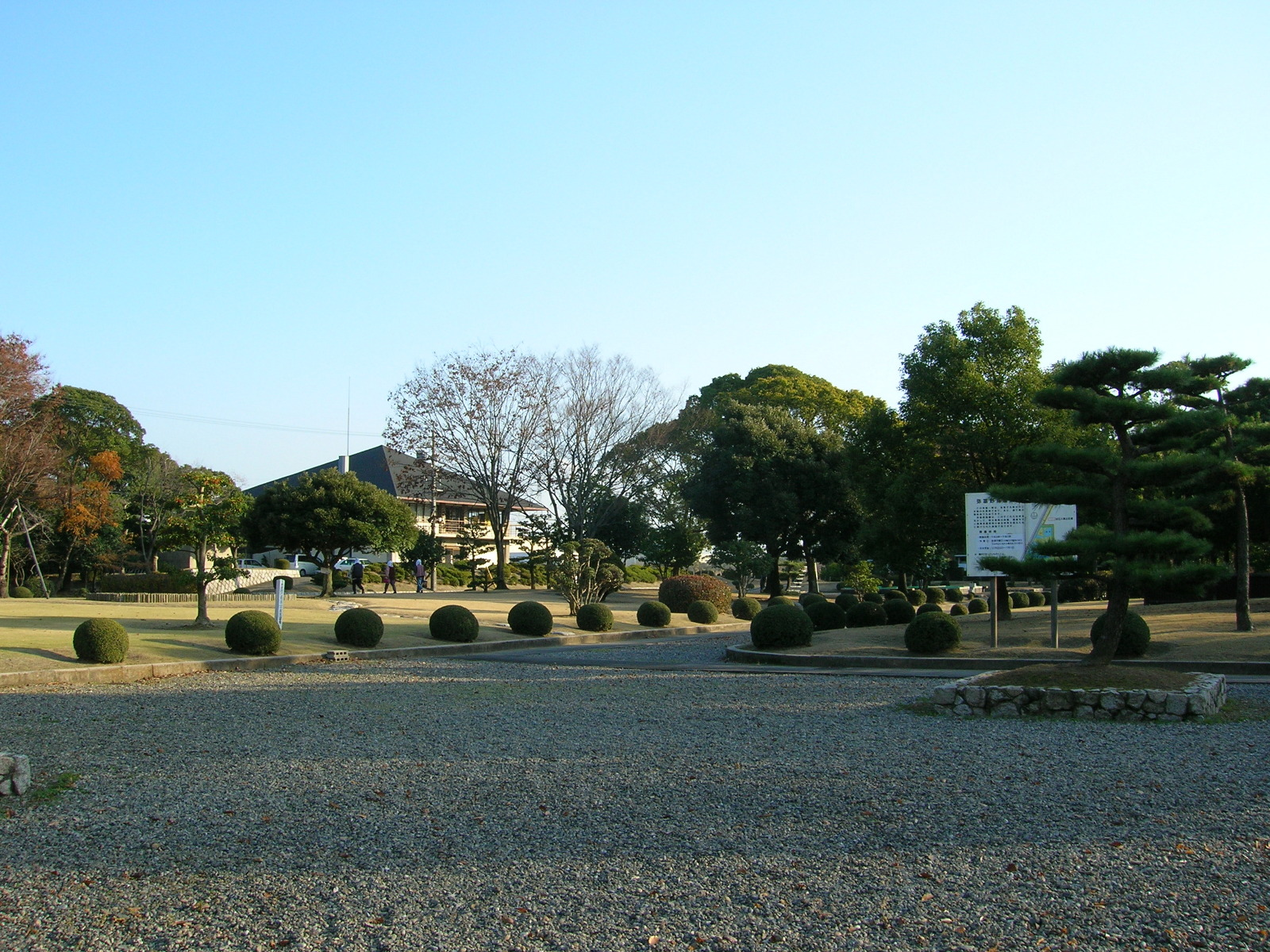 Aichiken Yatomi Yachoen (Yatomi Wild Bird Sanctuary) Loc: Yatomi city, Aichi Prefecture, Japan. 愛知県弥富野鳥園 撮影場所 愛知県弥富市